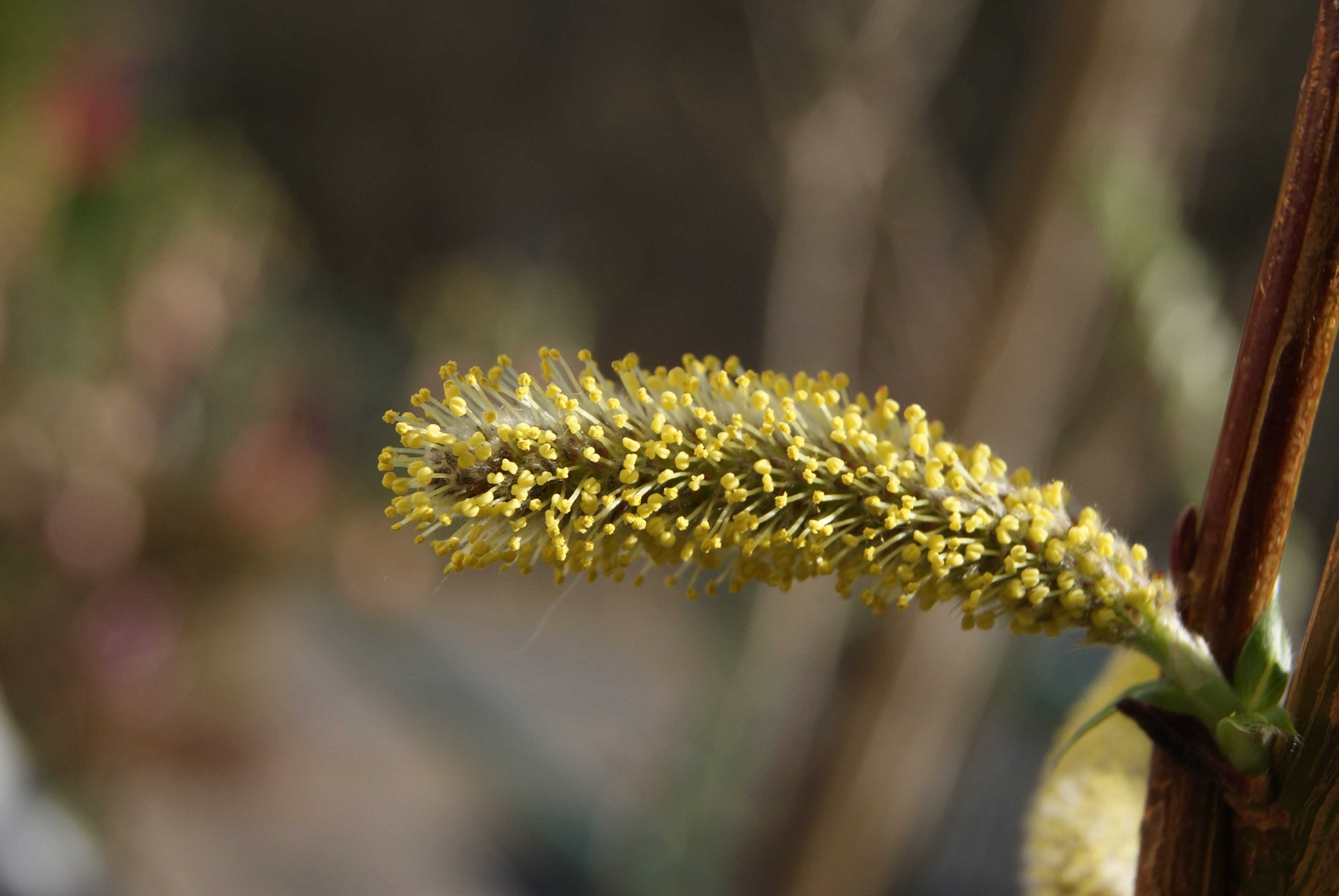 Salix udensis ('Sekka')